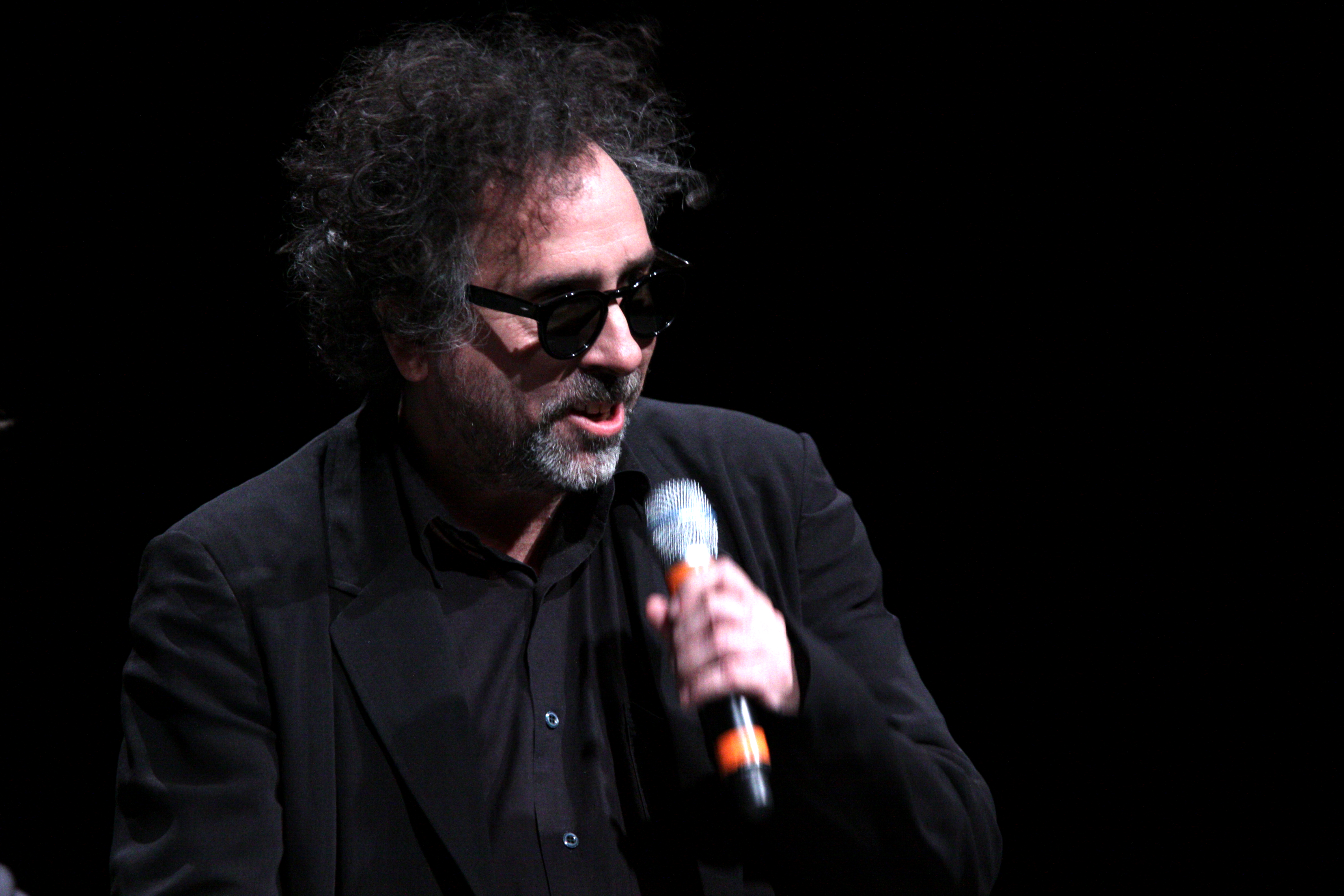 Tim Burton speaking at the 2012 San Diego Comic-Con International in San Diego, California.